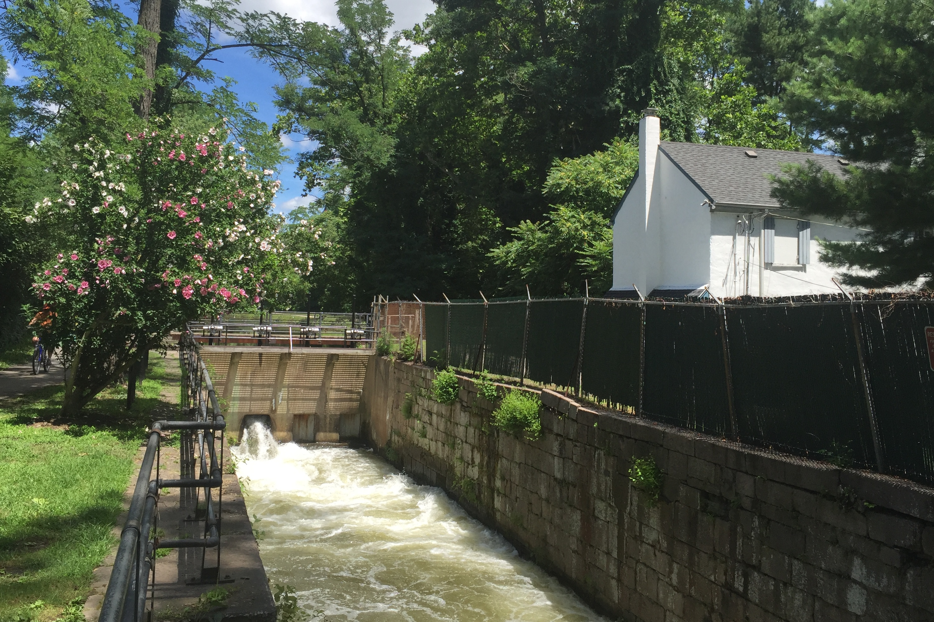 Lock and Lock Tender's House in Lambertville, NJ along the feeder canal for the Delaware and Raritan Canal.